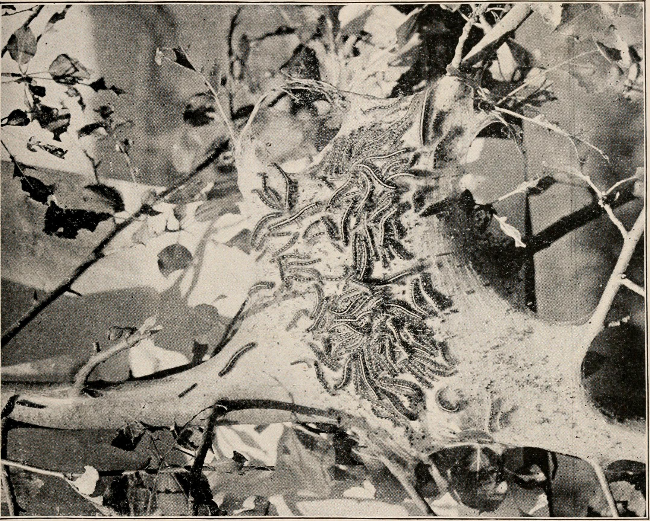 Identifier: introductiontozo00dave Title: Introduction to zoology; a guide to the study of animals, for the use of secondary schools; Year: 1900 (1900s) Authors: Davenport, Charles Benedict, 1866-1944 Davenport, Gertrude Anna Crotty, 1866- Subjects: Zoology Publisher: New York, Macmillan company London, Macmillian and co., ltd. Text Appearing Before Image: FIG. 27. — Egg masses of forest Tent-caterpillar, laid on branch. Photo, by V. H. L. 1 A poetic name of Diana, from the mountain Cynthus. 2 The name of the fabled one-eyed giant blinded by Ulysses. 3 A name hi Greek mythology, THE BUTTERFLY AND ITS ALLIES 27 destructive species, which infest apple trees and even foresttrees (Figs. 25 and 26). Eggs are laid in a ring-like clusteraround a twig (Fig. 27). Here they pass the winter andhatch out in the spring as young larva1. The larvae are grc- Text Appearing After Image: FIG. 28. — Nest of Clisiocampa tl/xxtria, the forest Tent-caterpillar, showingthe web and the way the larvae crowd together on it. Photo, by V. H. L. garious and spin a tent-like web, on which they live whennot feeding (Fig. 28). When ready to transform, theyspin a cocoon made of a yellow powder mixed with silk.The Noctuidae 1 (Owlet moths) are night fliers and are 1 From nox, night. 28 ZOOLOGY attracted by our lamplights. They are the most numer-ous of all our moths, eighteen hundred species being knownfrom our country. Among the largest members of this group are the Catocala l moths alreadyreferred to. Here also are placed theboll-worm, which eats cotton-pods andgreen ears of maize ; the cotton-worm,which destroys the foliage of cotton;the army-worm, which devours grassand young grain ; and the myriad cut-worms, of which some gnaw off younggarden shoots at the level of the ground,while other kinds ascend trees and de-stroy buds. To the Noctuidse belongalso the Tussock moth (Fig. 2